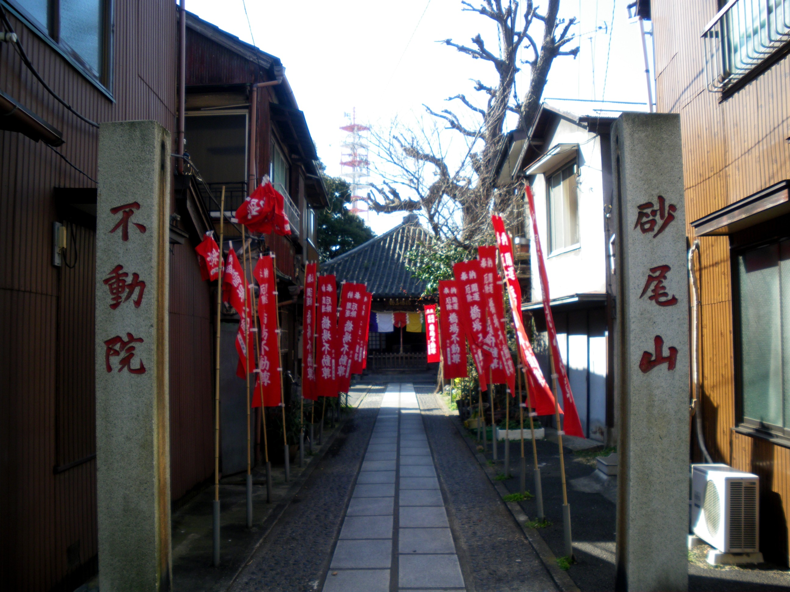 Hashiba Fudoin Temple(Hashiba,Taito,Tokyo)